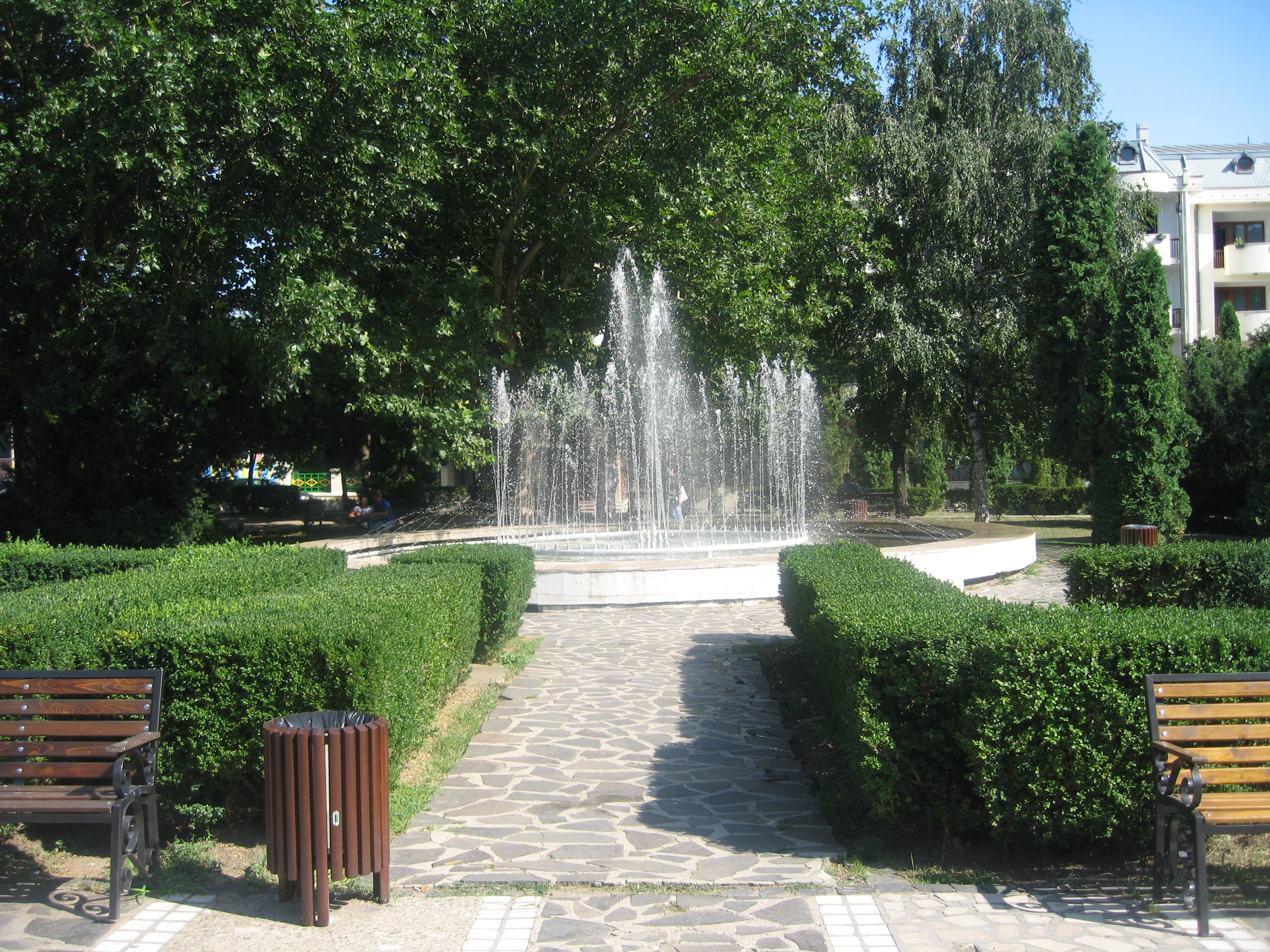 Artesian well in Iași, Romania